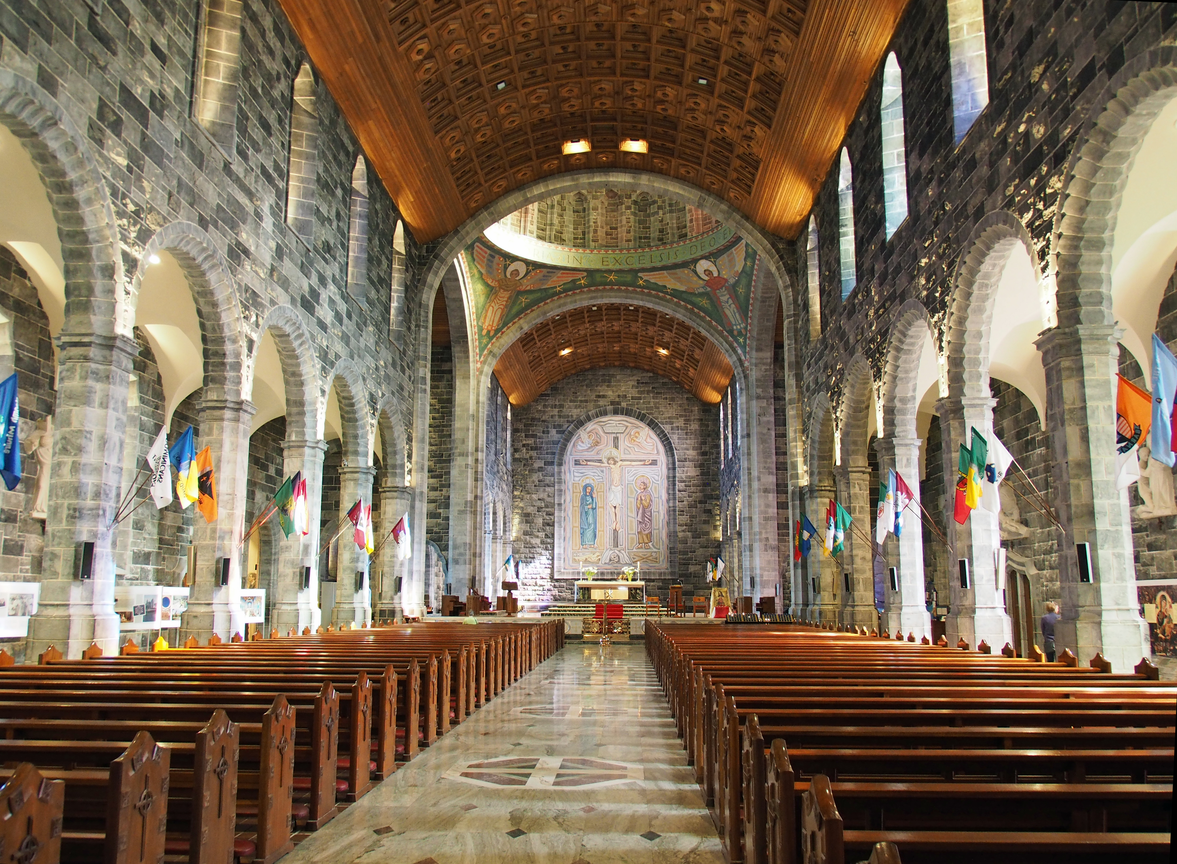 Galway (Gaillimh), cathedral